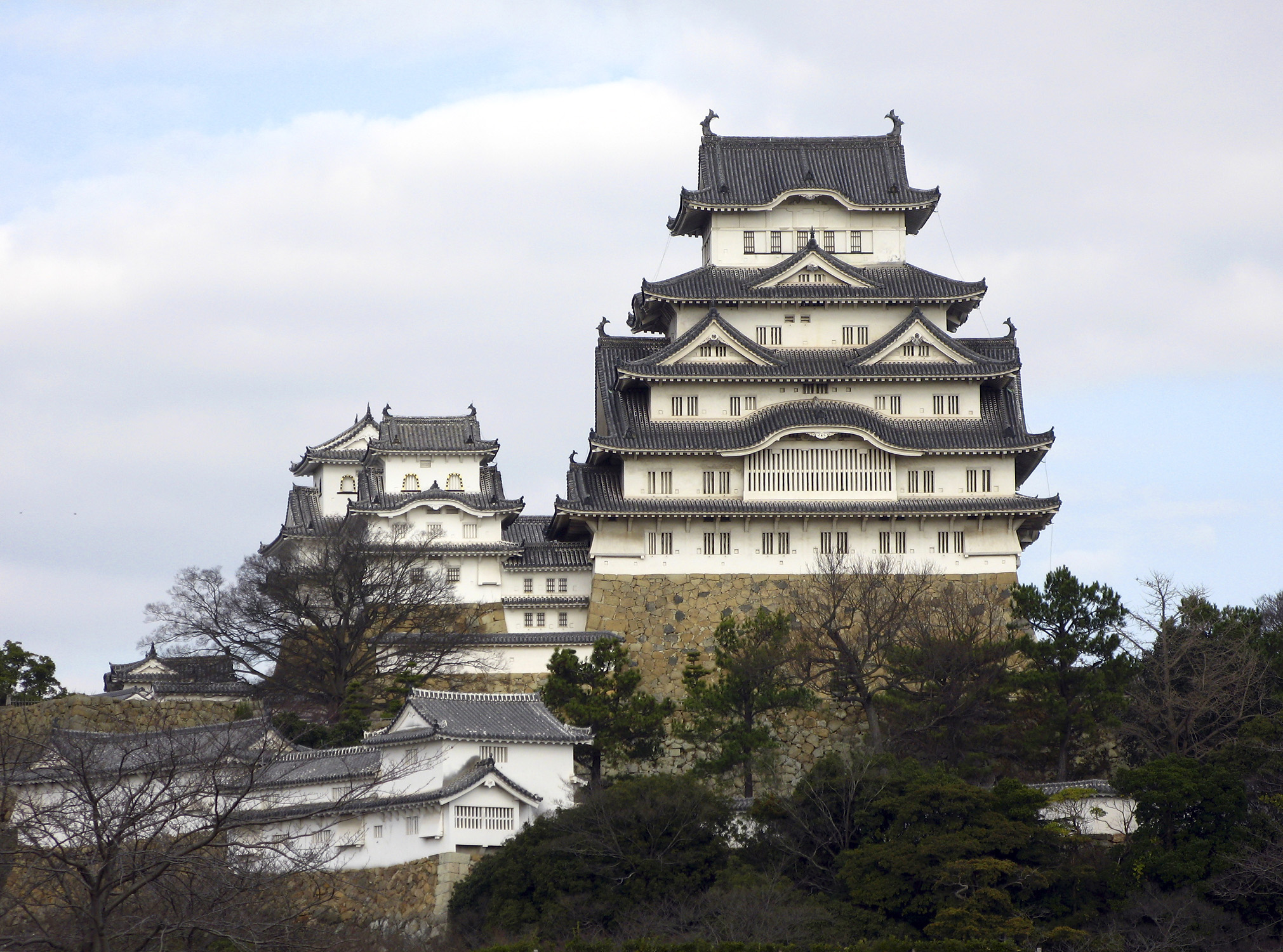 Himeji Castle, Himeji, Hyogo, Japan. I took this photo and contribute my rights in the file to the public domain.